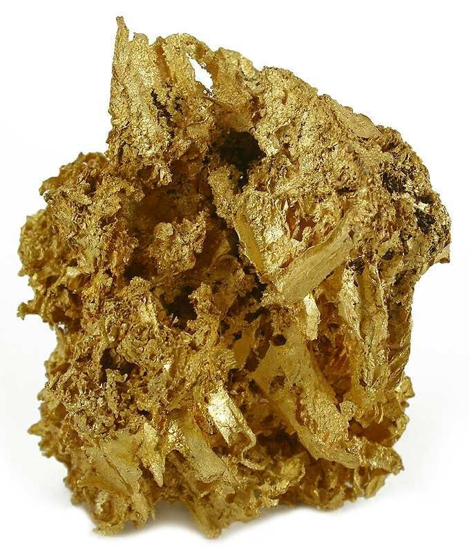 Gold Locality: Farncomb Hill, French Gulch, Breckenridge District, Summit County, Colorado, USA (Locality at ) Size: 6.5 x 5 x 3.5 cm. A 102-gram crystallized cluster of unusually robust gold crystals for the Breckenridge mining district. These are generally historic specimens, with most having been found prior to 1900. However, some have trickled out over the years to intrepid diggers. No way to say when this one came out, in other words, but it likely is an older specimen. Note the unusual, elongated "leaves" to this specimen. It is quite obviously from Breckenridge but the style is just more robust than most.